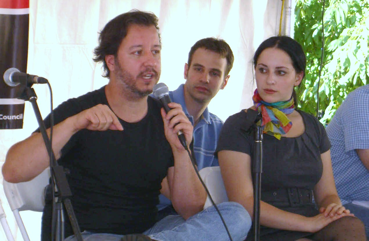 Comics creators and ACT-I-VATE members Dean Haspiel, Nathan Schreiber and Molly Crabapple, speaking on a panel about their work at the 2009 Brooklyn Book Festival.